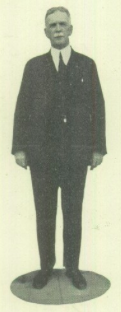 A full body portrait of Benson Dillon Billinghurst